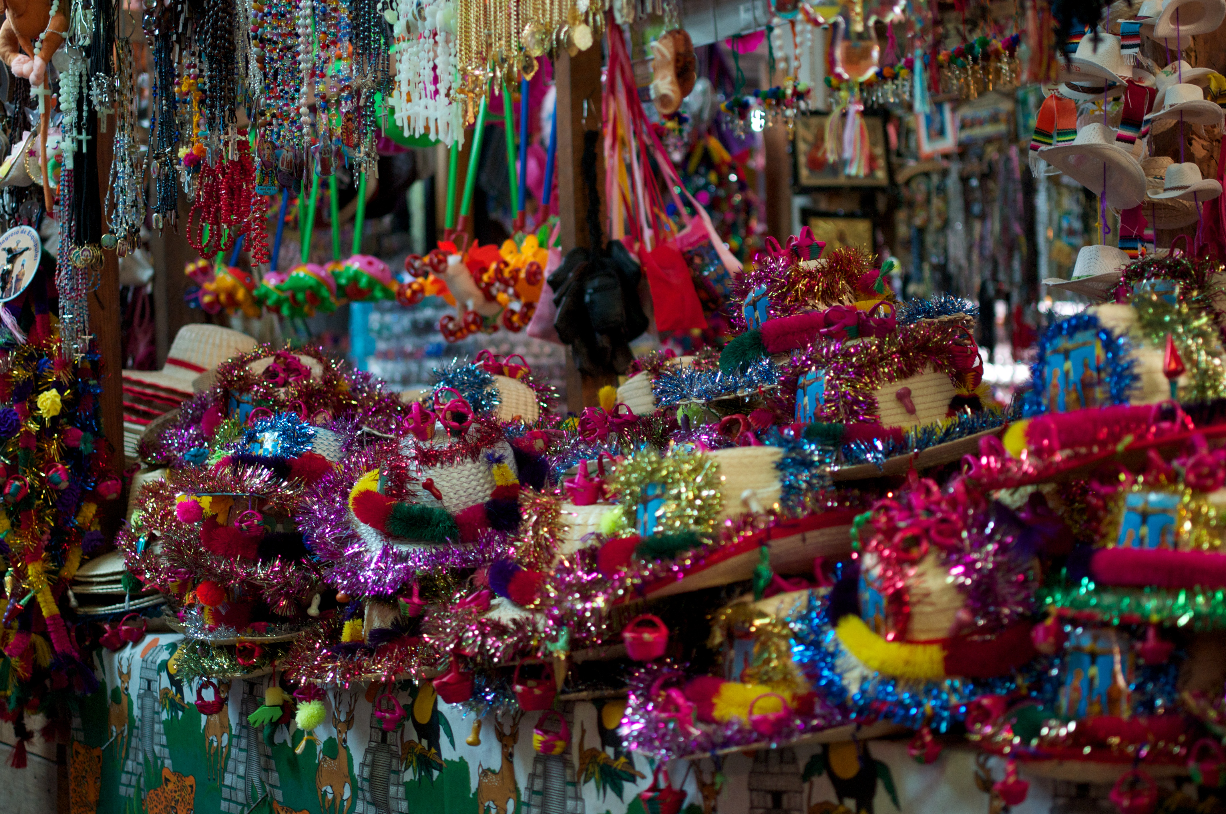 Various memories of pilgrimage of Esquipulas